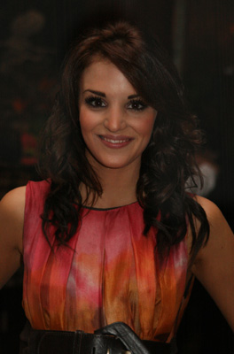 Miss Ireland 2007 Blathnaid McKenna in Miss World 2007, Sanya, China